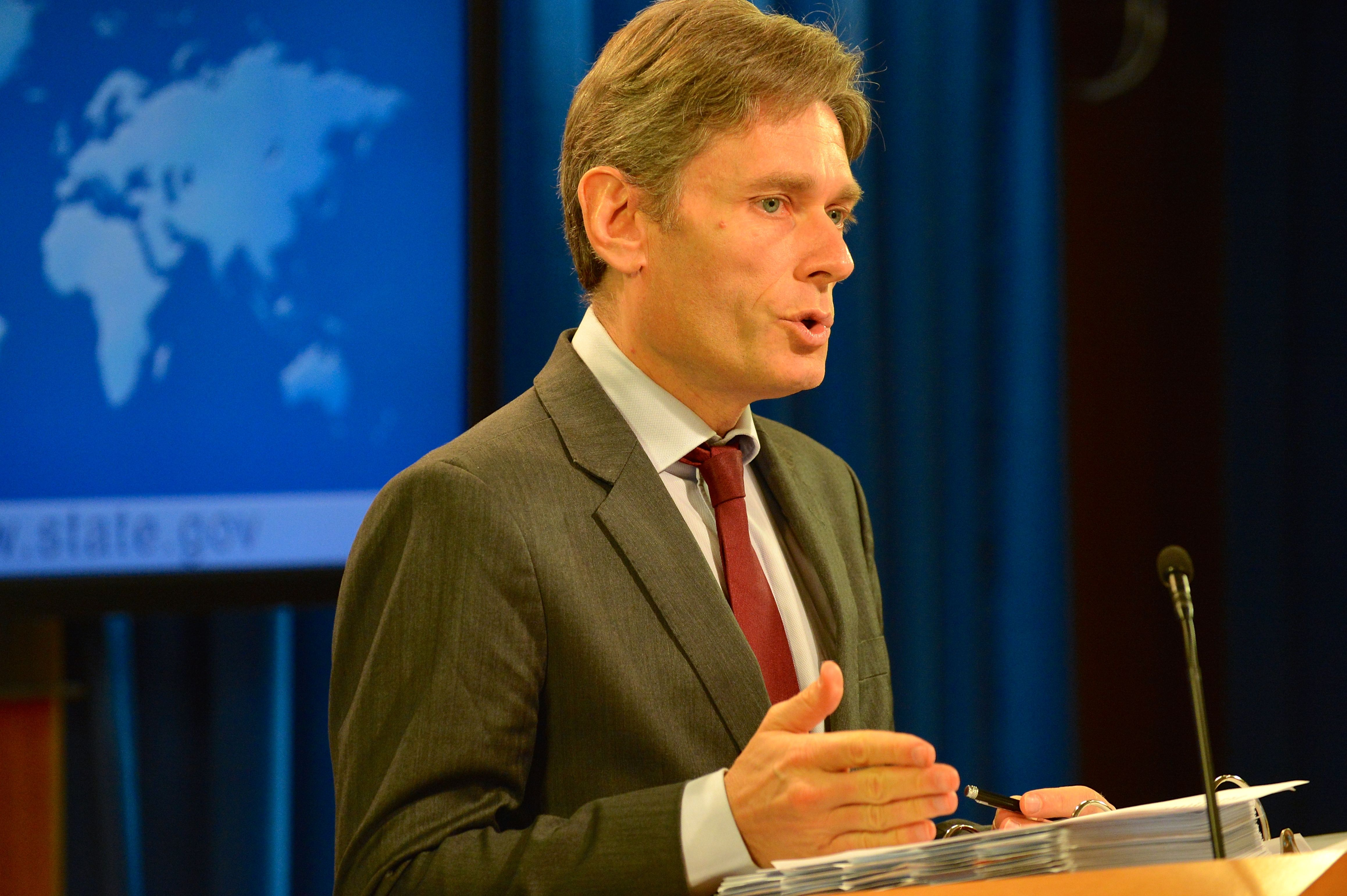 Assistant Secretary of State for Democracy, Human Rights and Labor Tom Malinowski delivers remarks and responds to questions after U.S. Secretary of State John Kerry released the 2015 Country Reports on Human Rights Practices, at the U.S. Department of State in Washington, D.C., on April 13, 2016. [State Department photo/ Public Domain]